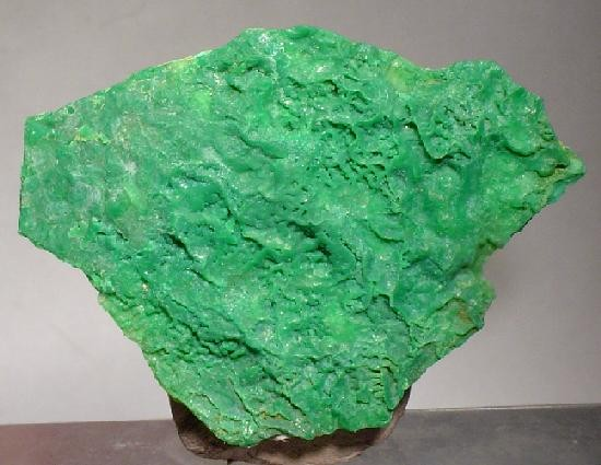 Falcondoite, Willemseite Locality: Loma Peguera, Bonao, Monseñor Nouel Province, Dominican Republic (Locality at ) Size: 4.3 x 3.0 x 0.3 cm. Falcondoite and willemseite are rare nickel, magnesium silicates found in a serpentinized harzbergite massif or an obducted ophiolite at a plate collision of oceanic crust with continental crust. The locality is in the Dominican Republic, which is the Type Locality for falcondoite. This very showy, bright green thin crust is mostly green falcondoite, with just a bit of lighter, olive willemseite.